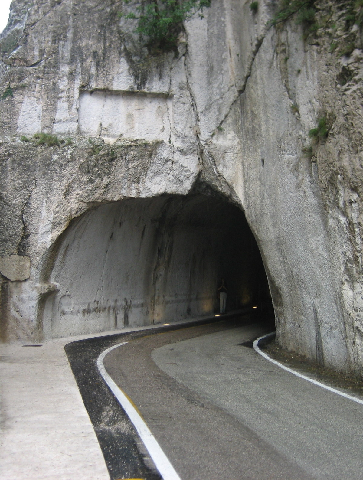 The north entrance of the Furlo tunnel in the course of the Via Flaminia Antica near Fossombrone in Marche in Italy.